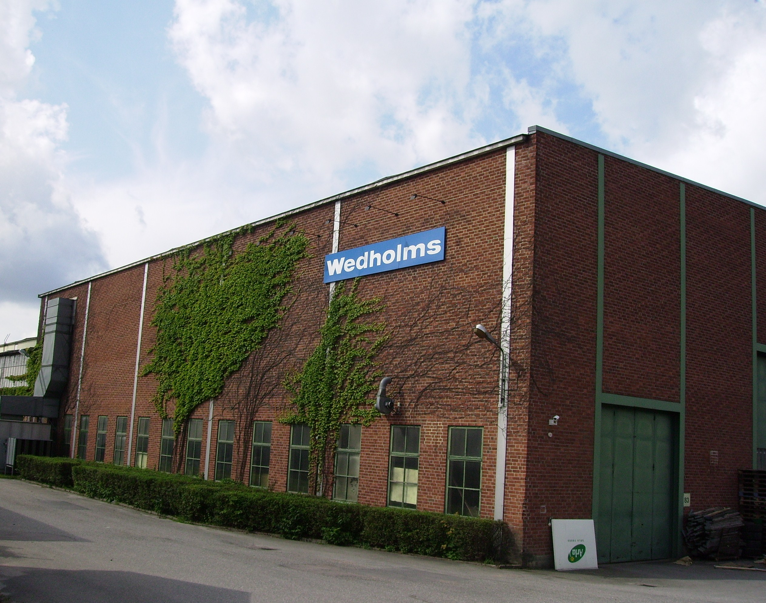 Picture of Wedholms AB, factory in Nyköping